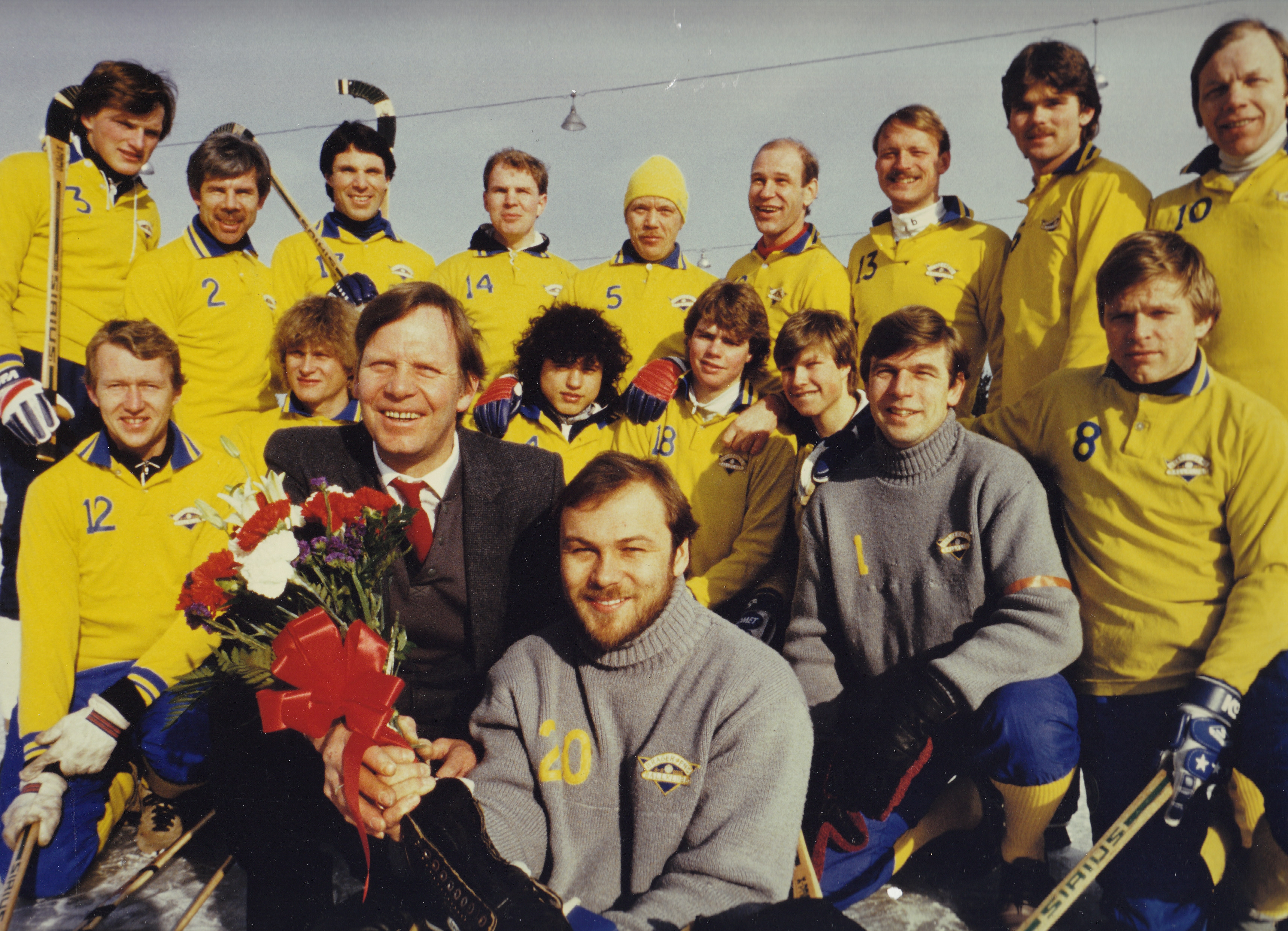 Bragerøens bandy team 1982.